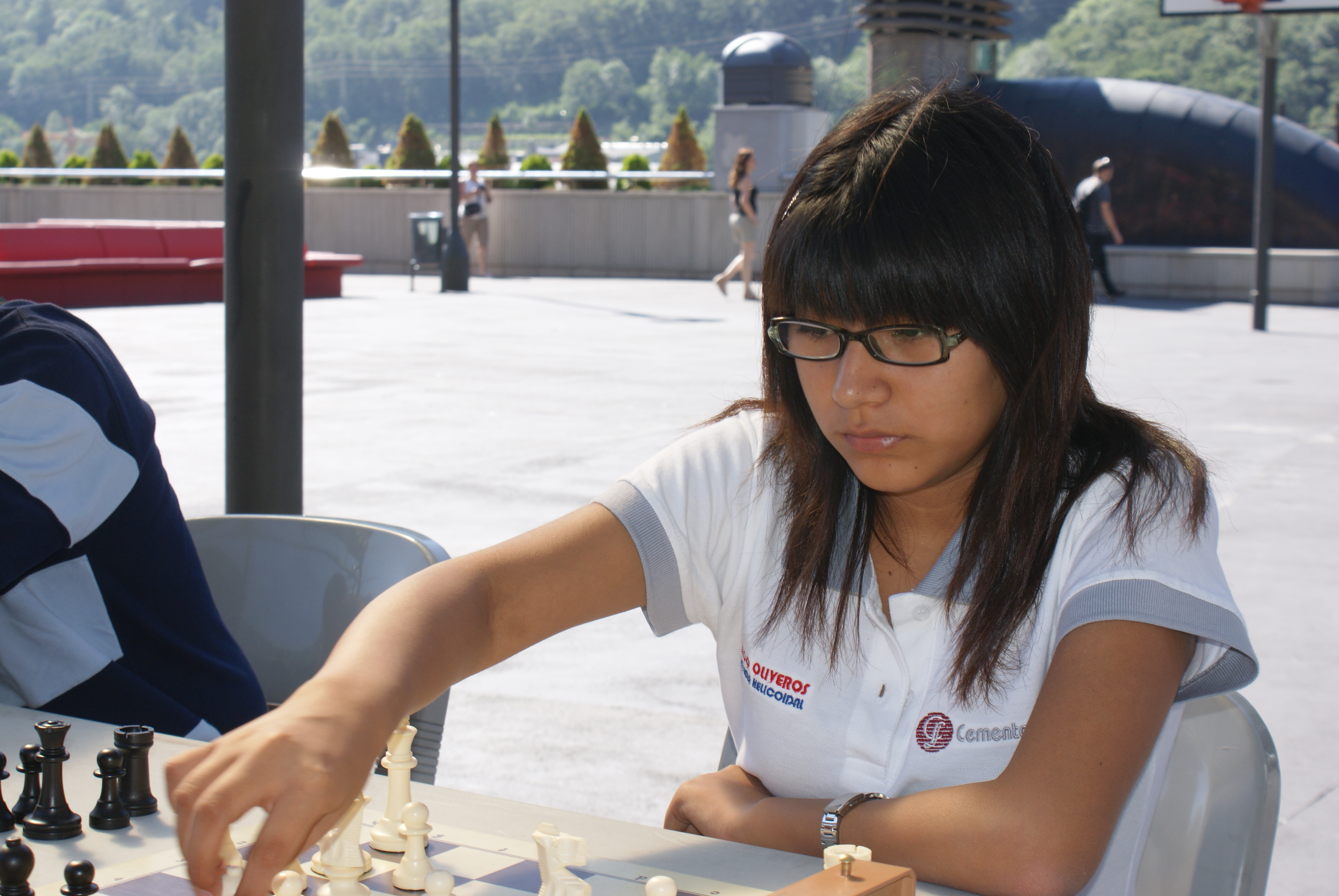 WGM Deysi Cori Tello (Peru) Plaça del Poble Andorra la Vella Amb el patrocini del Banc de Sabadell d'Andorra